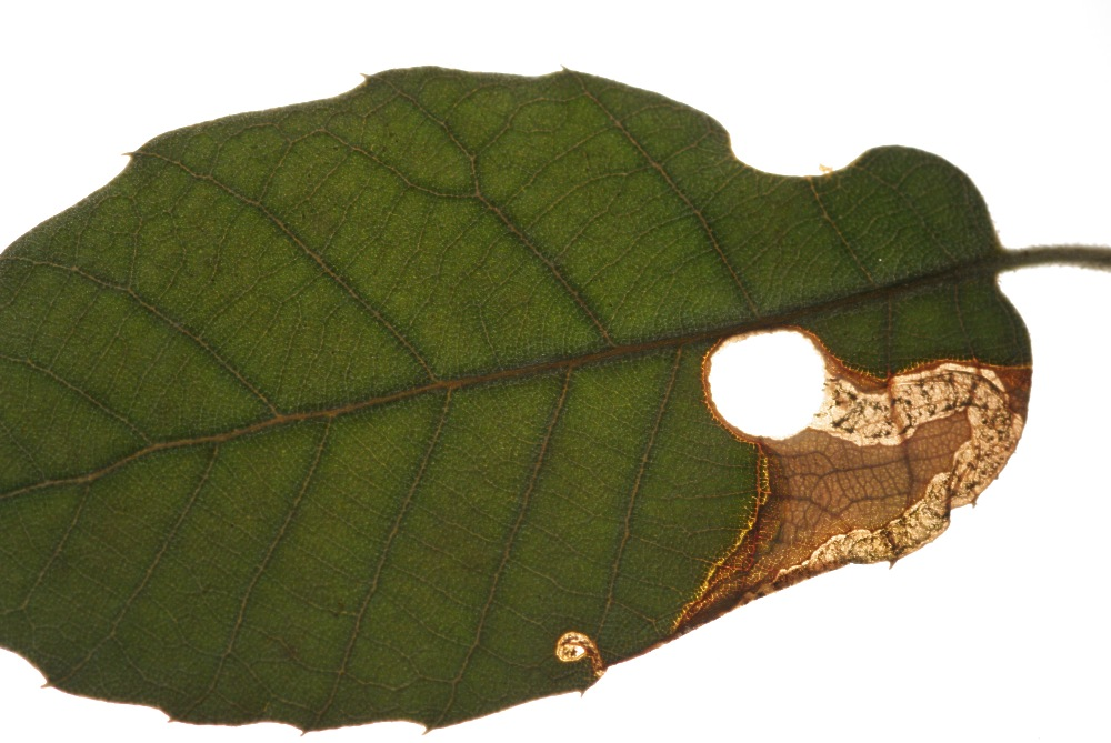 Rhynchaenus avellanae: Mine on Quercus ilex